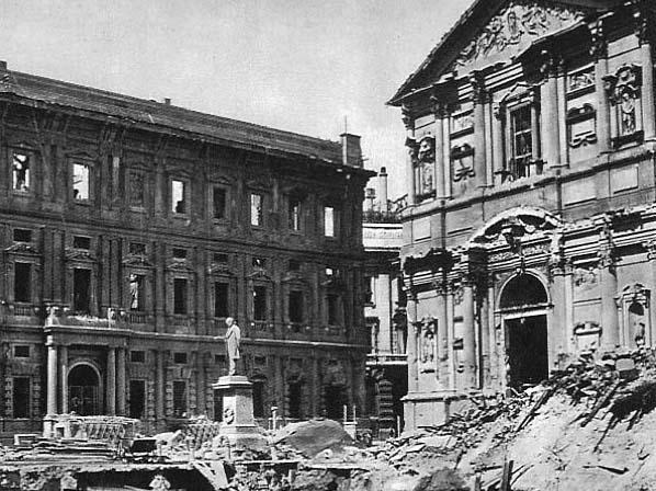 Milan, San Fedele square after allied bombings in 1943.